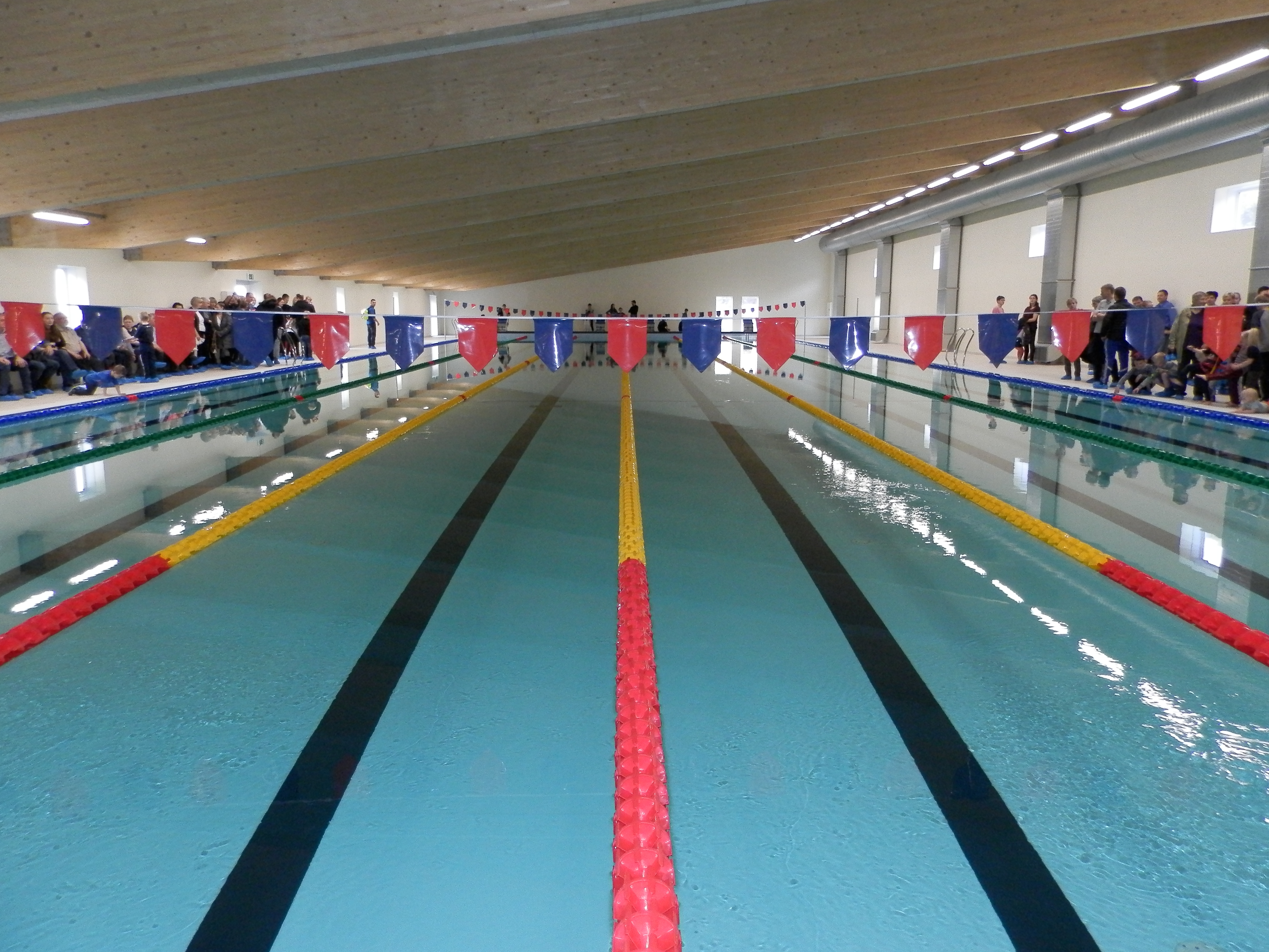 Páls Høll is the first 50-meter swimming pool in the Faroe Islands. It was built in Vágur from 2013 until 2015 and opened officially on 17 October 2015. It is named after Pál Joensen, who is - until now - the best Faroese swimmer ever and the only Faroese swimmer who has competed at the Olympics. The swimming pool is heated with the warm water from the SEV-electricity power plant, which until the hall was built was running into the sea.